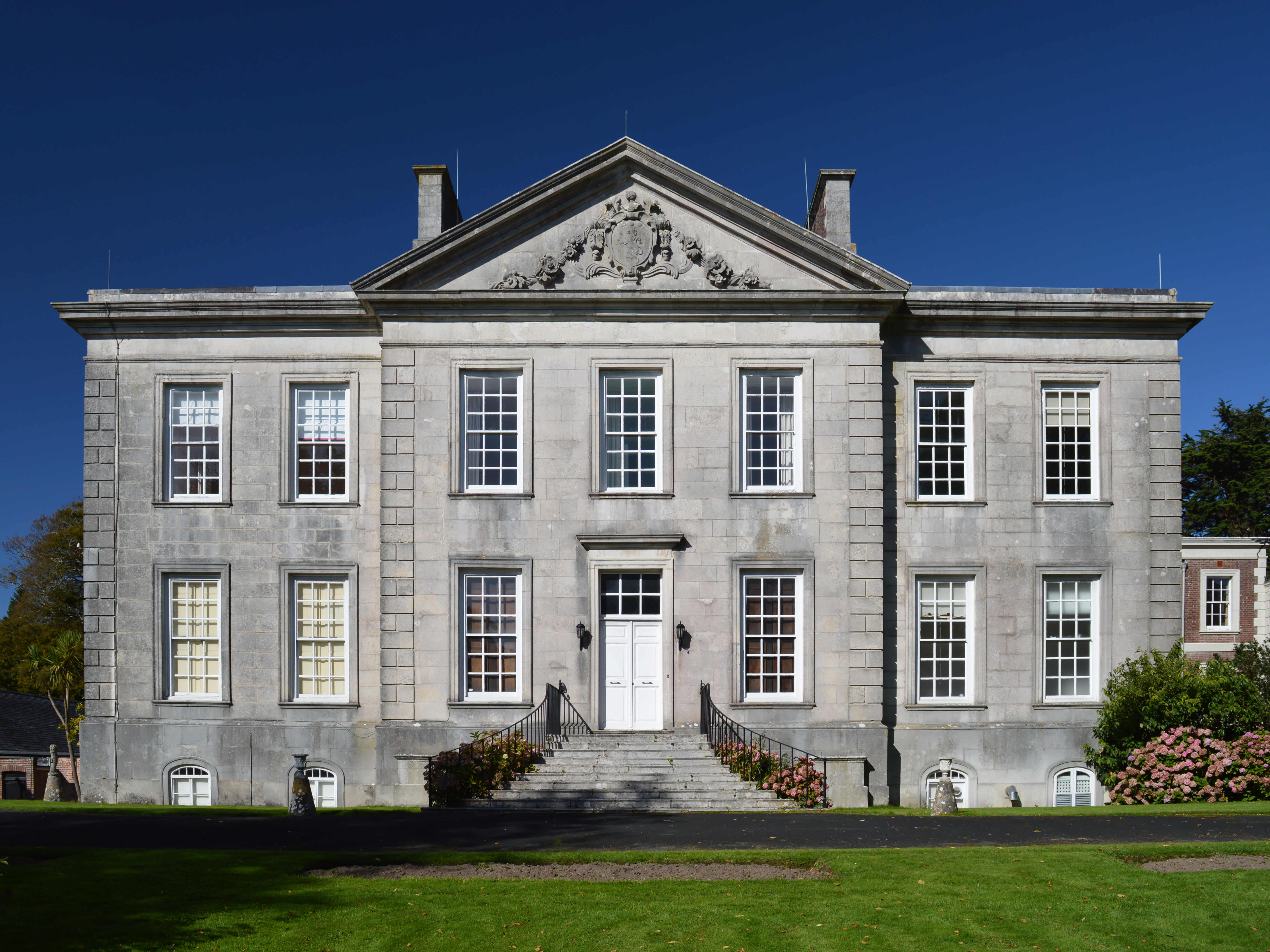 The Plympton House Estate in Plympton St Maurice near Plymouth in South Devon, UK